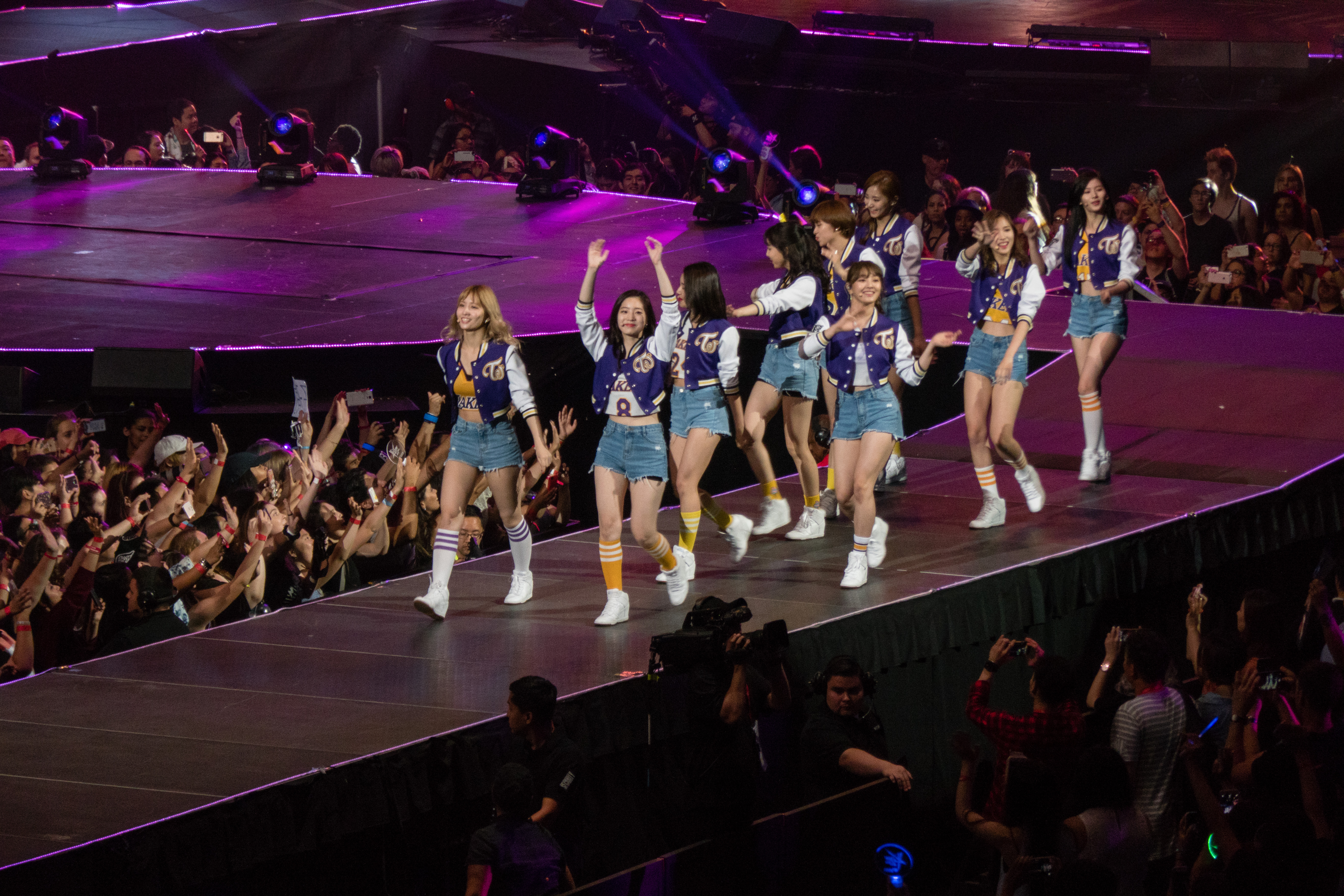 Twice (트와이스) live at KCON16 LA